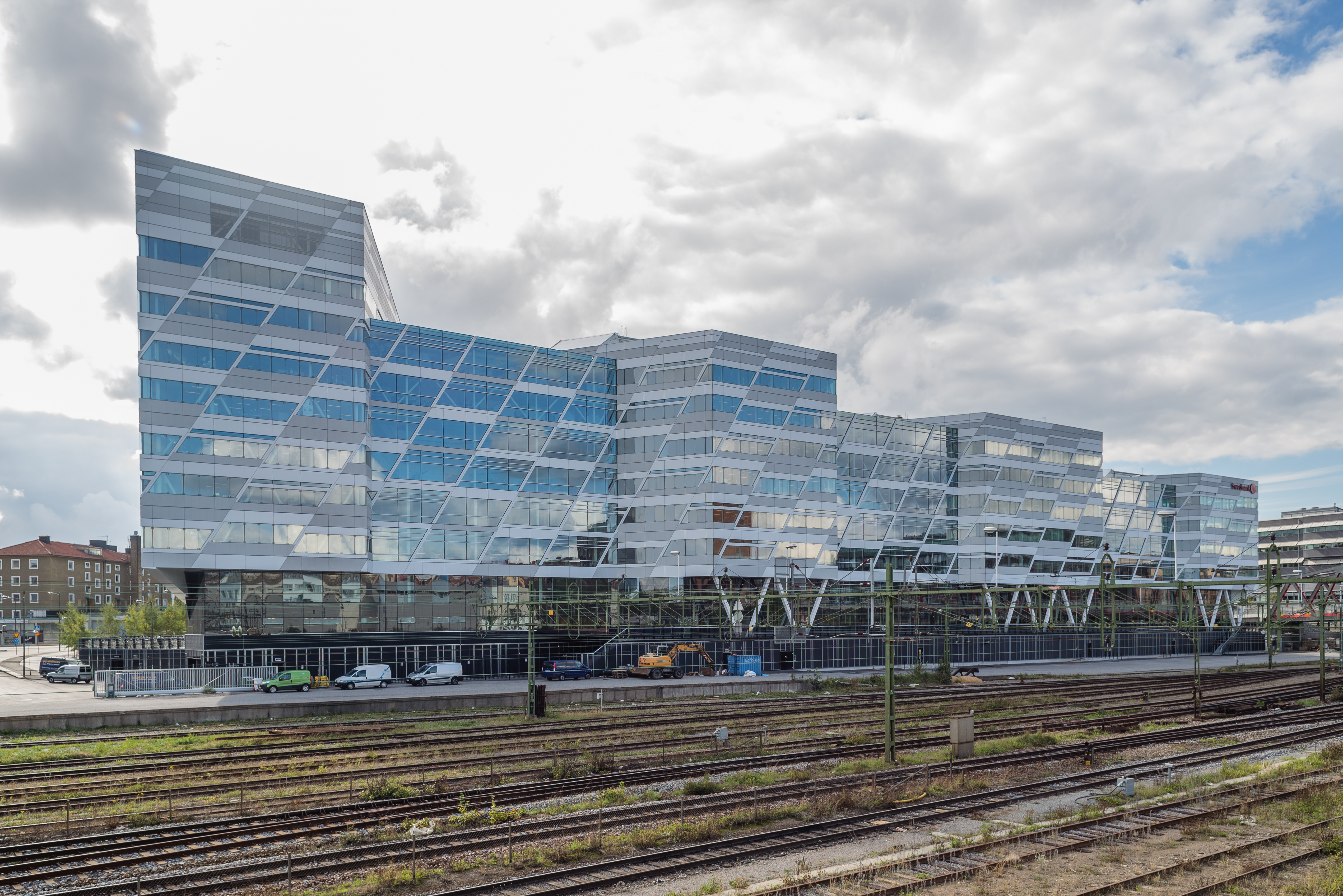 New corporate headquarter for Swedbank in Sundbyberg, Stockholm. Inaugurated in 2014. Architects: 3XN.